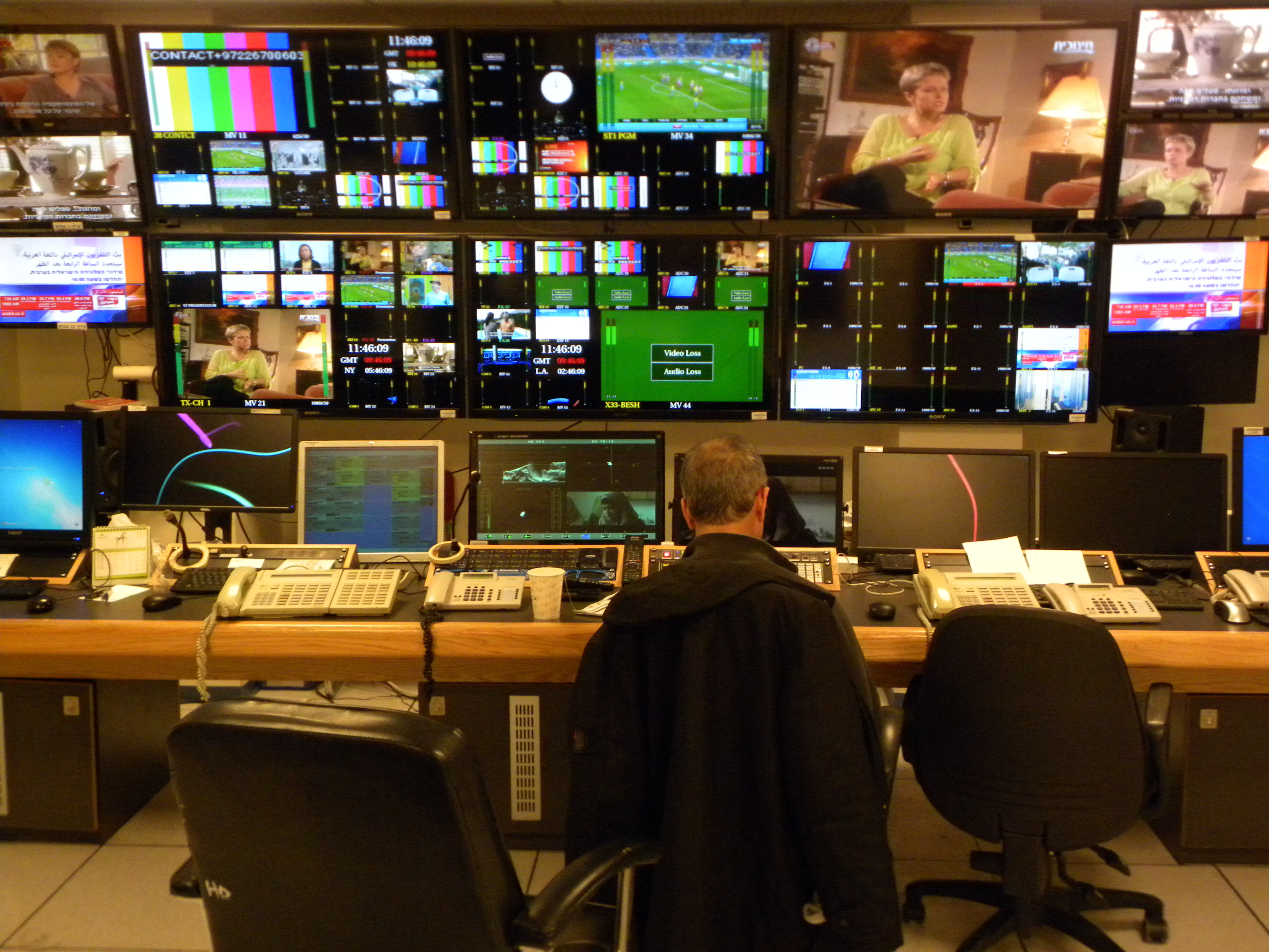 Israel Broadcasting Authority's HD1 studio, in Romena, Jerusalem